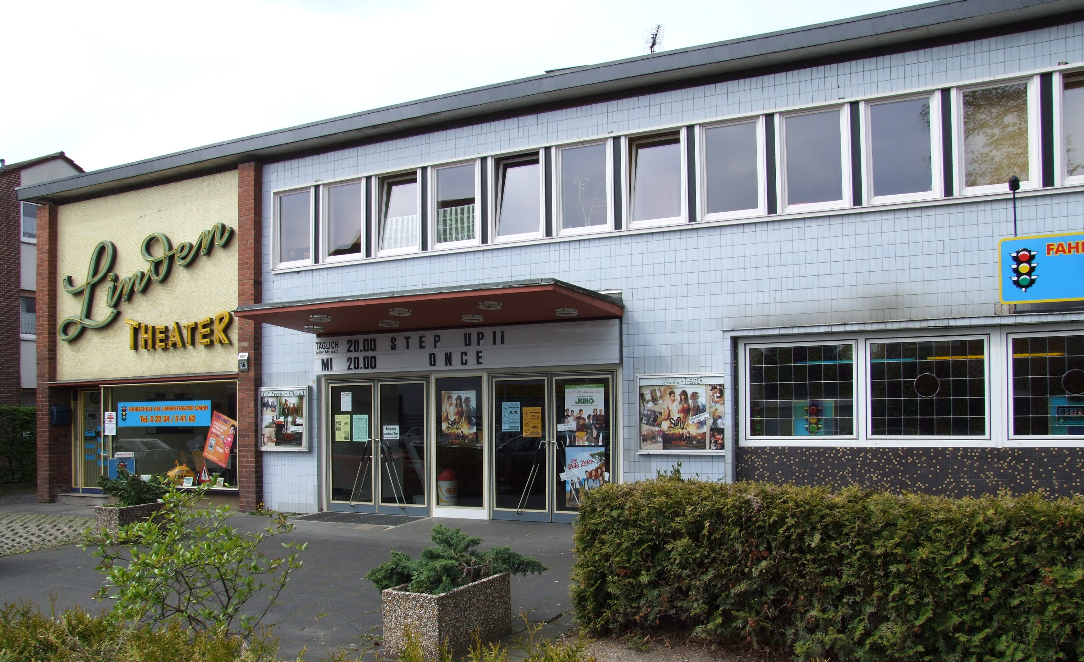 Linden-Theater in Frechen This is a photograph of an architectural monument. 129